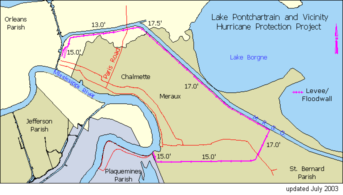 Map of Chalmette, Louisiana region, between the Mississippi River & the MRGO canal, east of New Orleans.